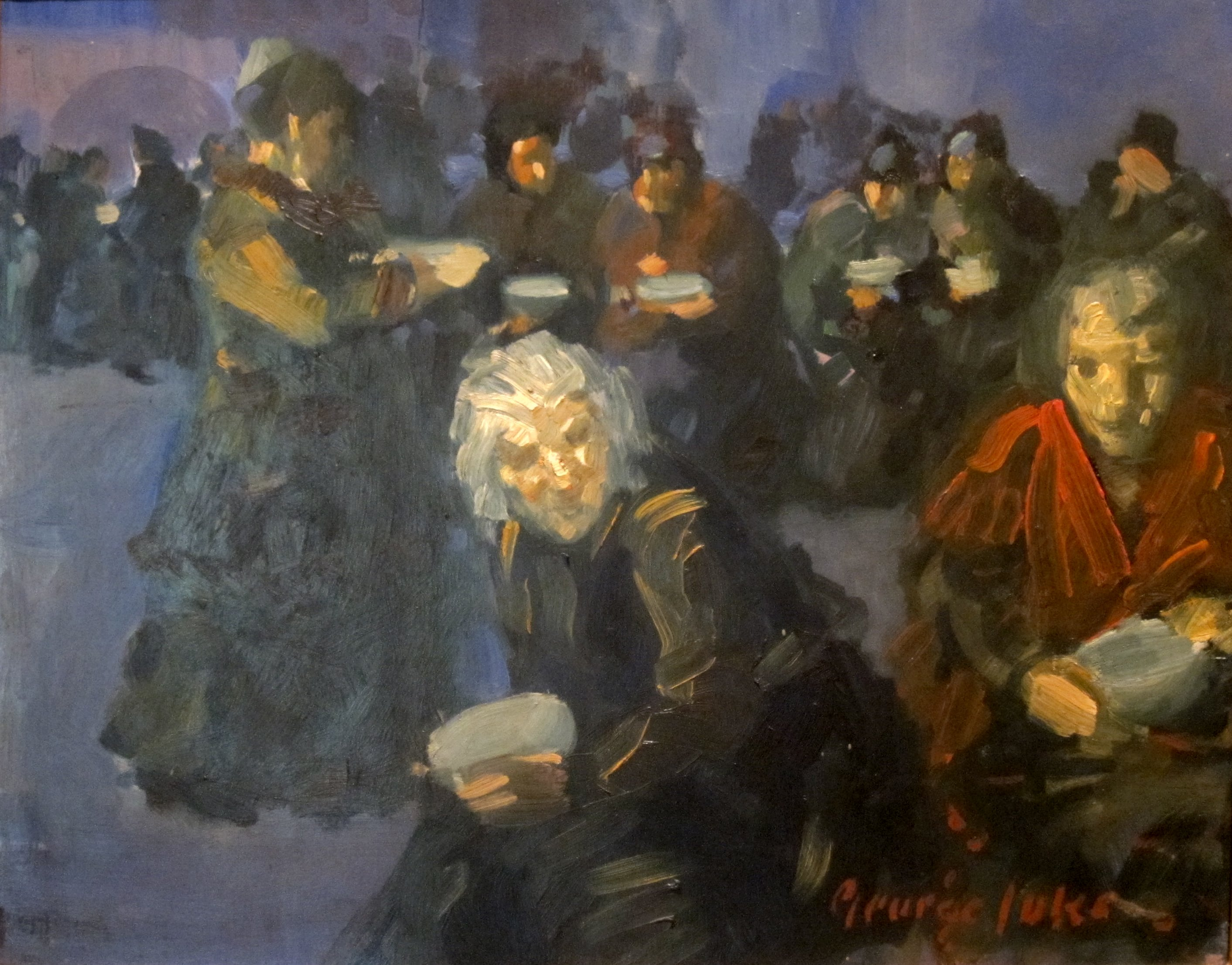 The Bread Line